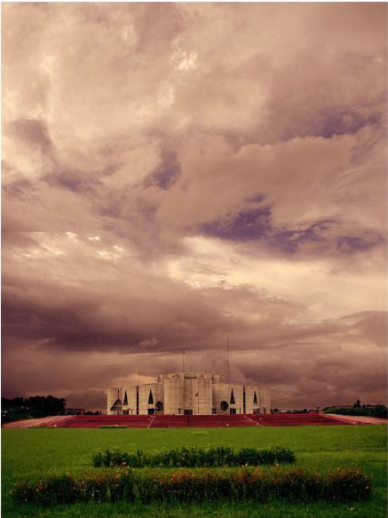 National Assembly of Bangladesh.